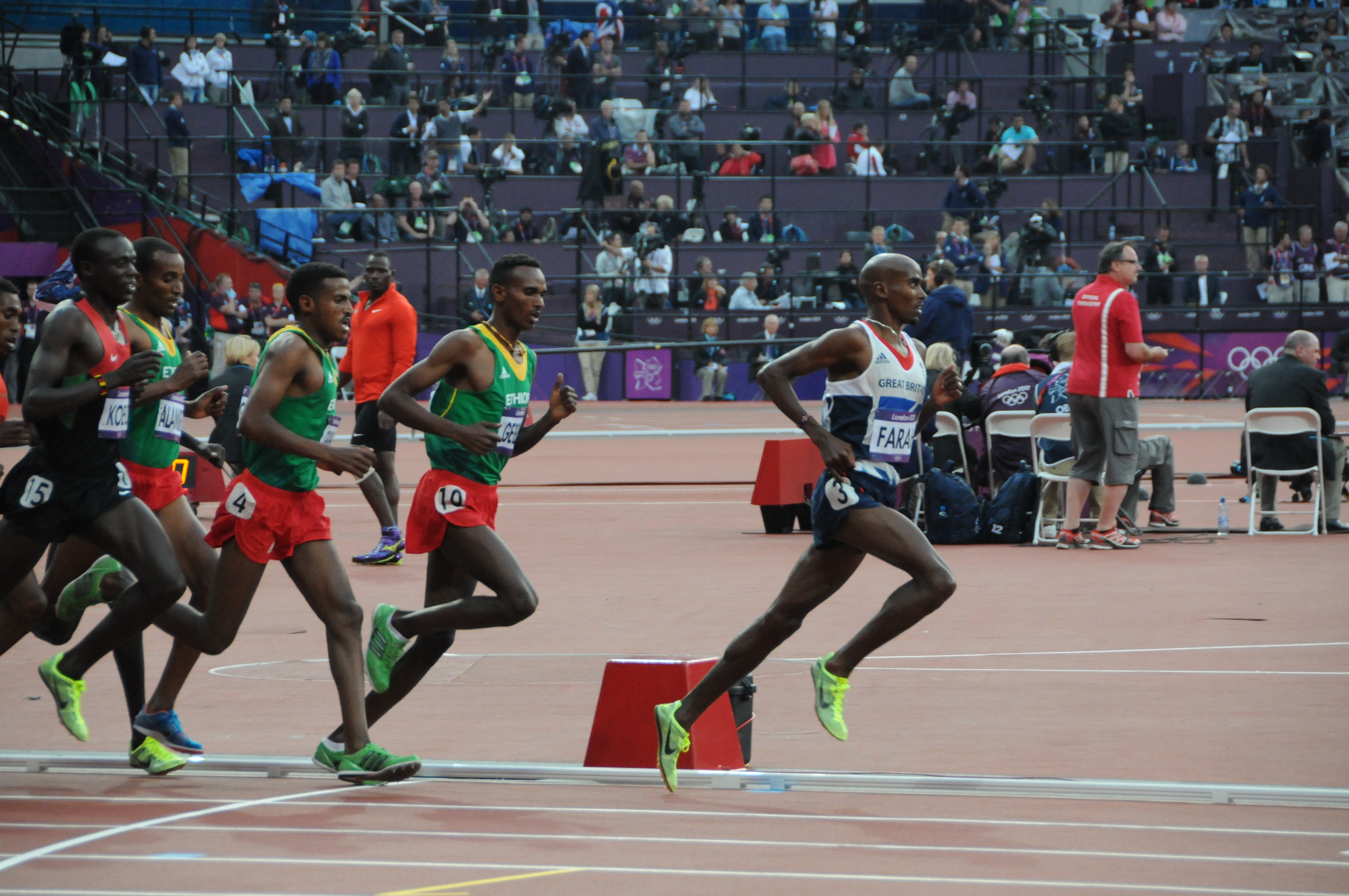 Mo Farah leading in the 5000m men's final at the 2012 Summer Olympics. Isiah Kiplangat Koech, Yenew Alamirew, Hagos Gebrhiwet, Dejen Gebremeskel, Mo Farah